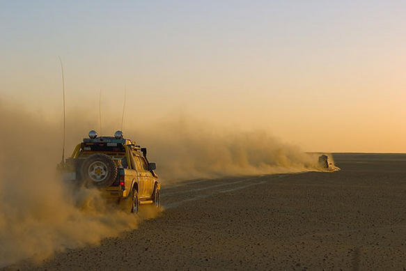 the desert of east sudan